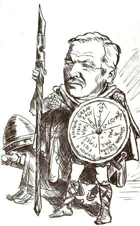 Richard William Murray Senior - Limner - caricature by WH Schroeder